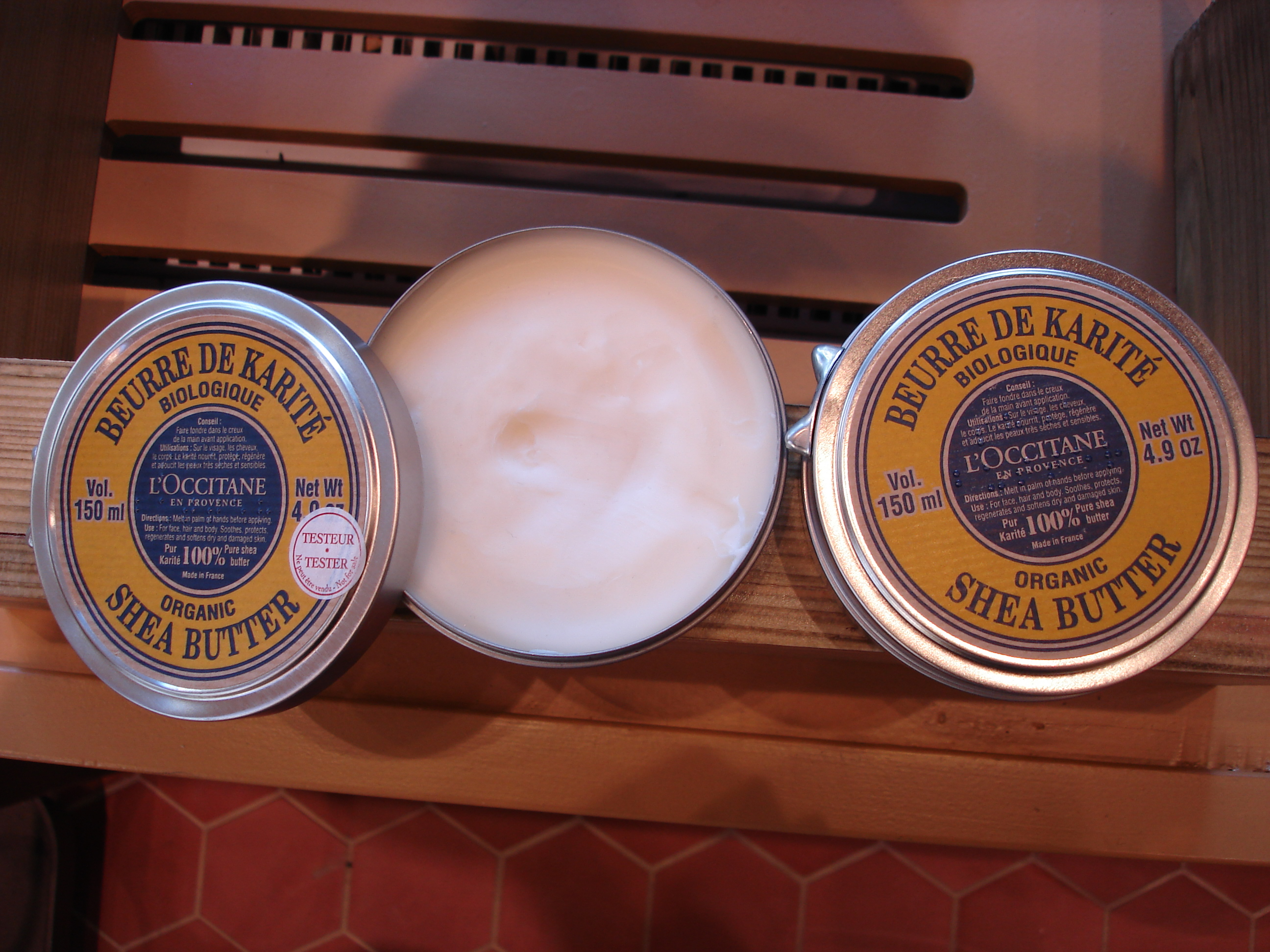 Shea butter